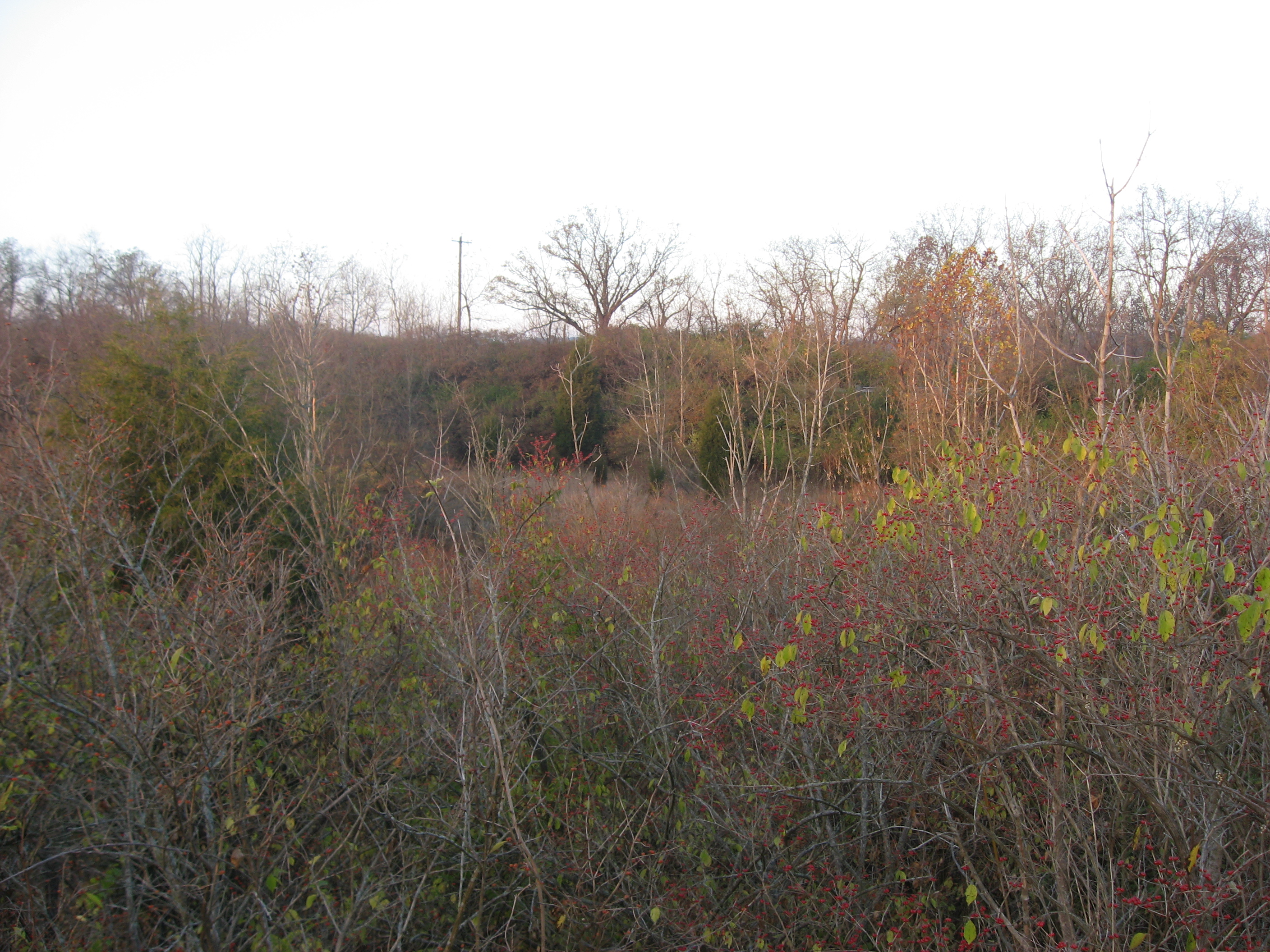 Fields on the southeastern corner of the intersection of Mount Nebo and Lawrenceburg Roads in Miami Township, Hamilton County, Ohio, United States. These fields are part of a group of archaeological sites known as the Mount Nebo Archaeological District; it is listed on the National Register of Historic Places.